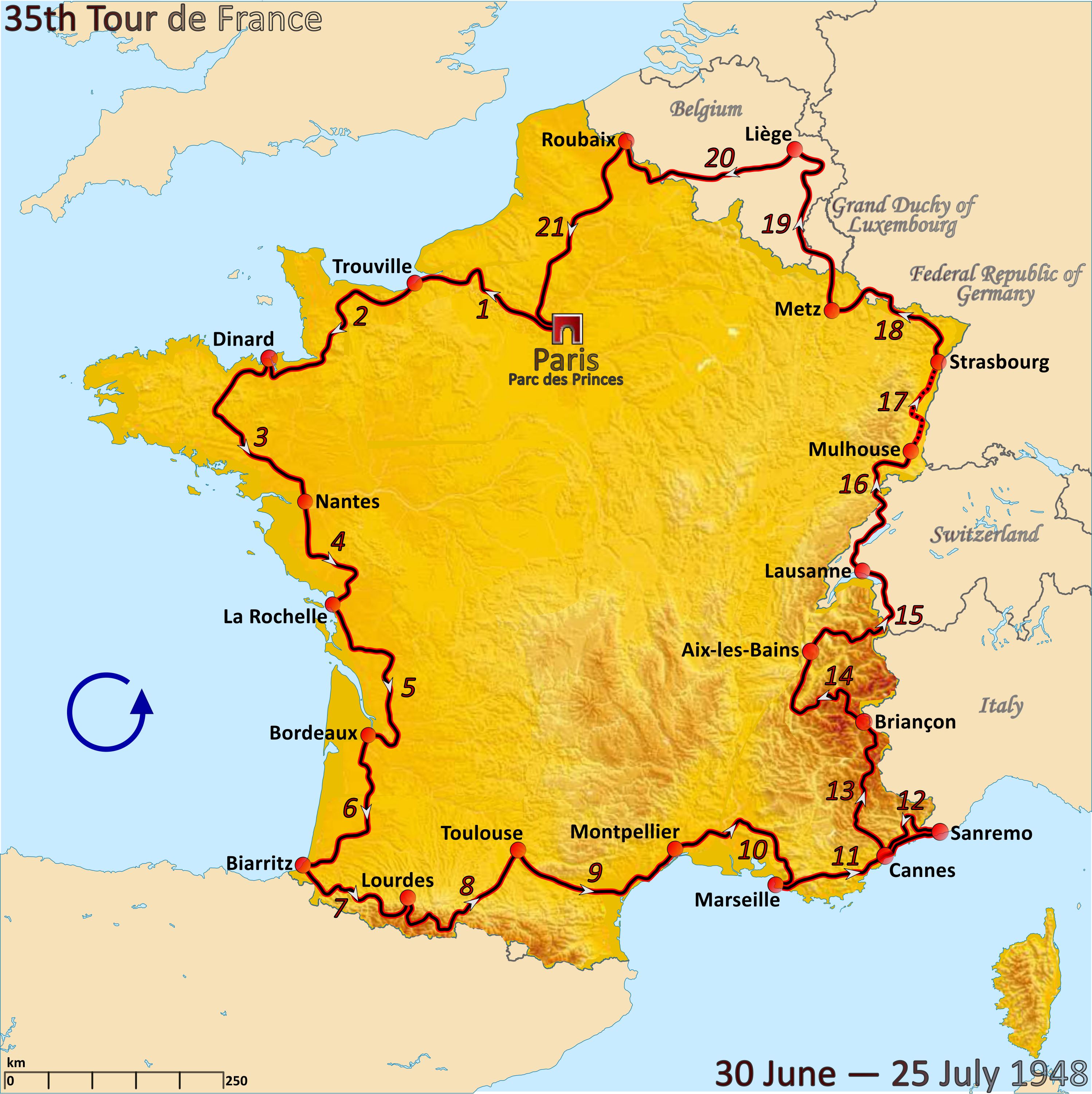 Route of the 1948 Tour de France created in Inkscape using accurate stage maps from touratlas.nl